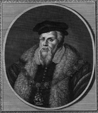 Francis Russell, 2nd Earl of Bedford (c1527-1585)